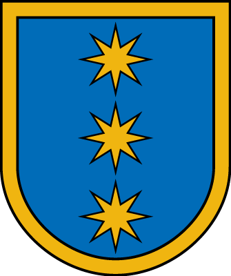 Coat of arms of Stopiņi Municipality, Latvia.